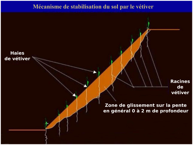 Conceptual drawing of the Vetiver System technology